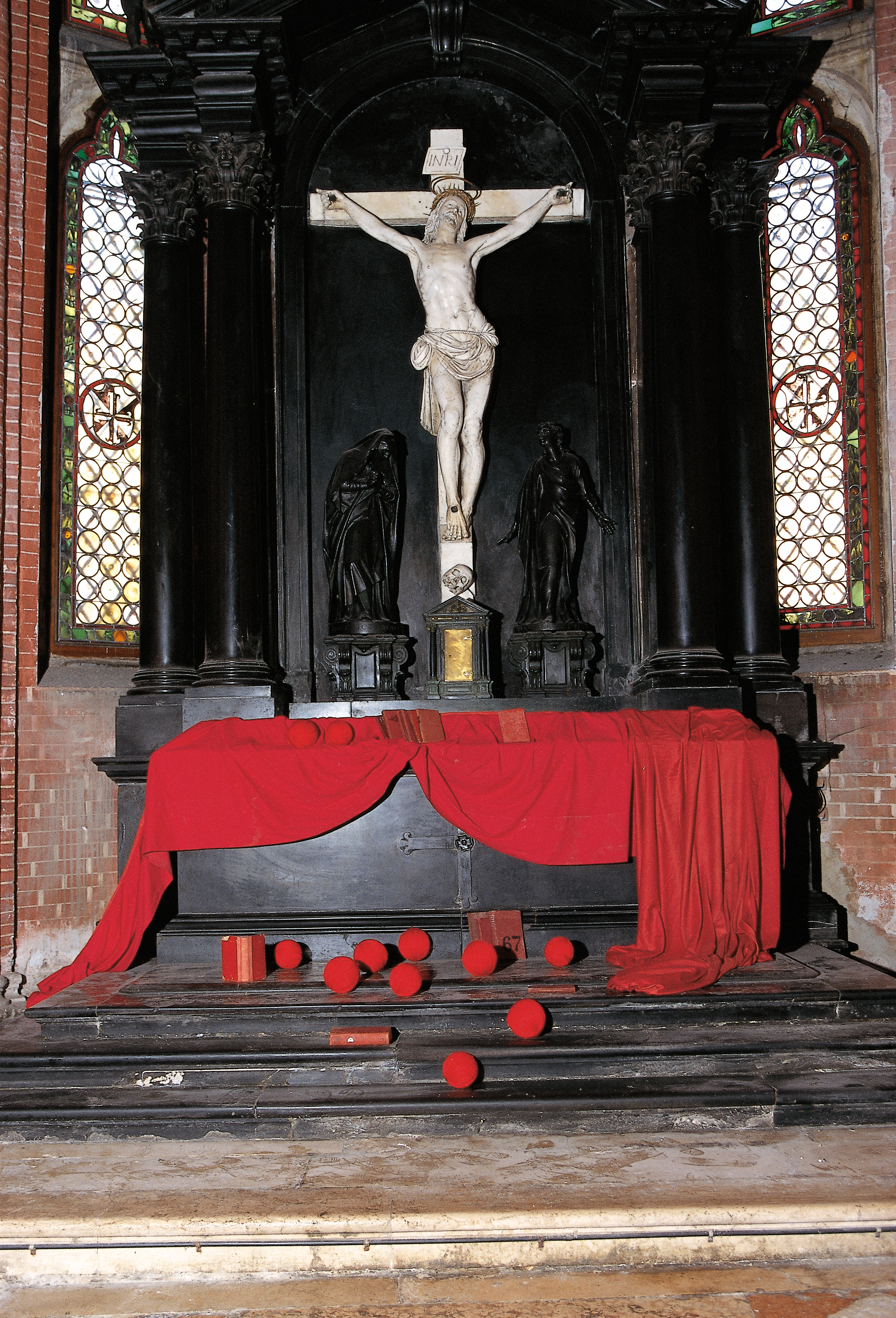 ph. Mark E. Smith